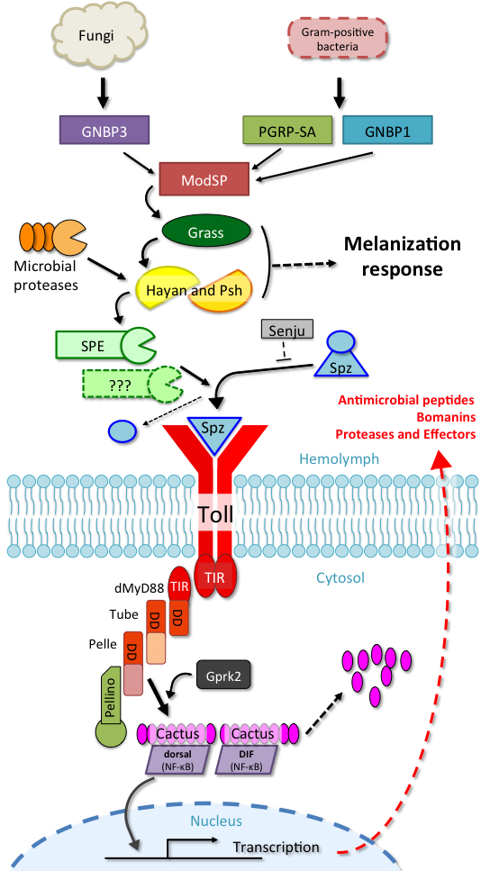 A summary diagram of Toll signalling as found in Drosophila melanogaster. The following resources were used in generating this summary (PMID included): 17201680, 31018123, 21209287, 27776480